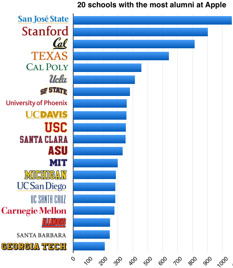 Universities_with_the_most_alumni_at_Apple